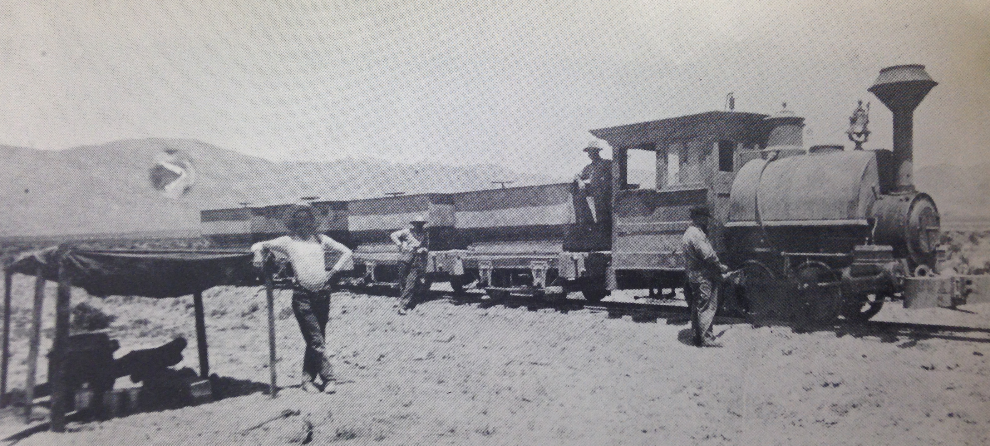 H.K. Porter built 0-6-0 saddle tank engine 'Sanger', built August 1888 for use on the Waterloo Mining Railroad (also known as Daggett-Calico Railroad), later used on the Mohave & Milltown Railroad at Oatman, Arizona.